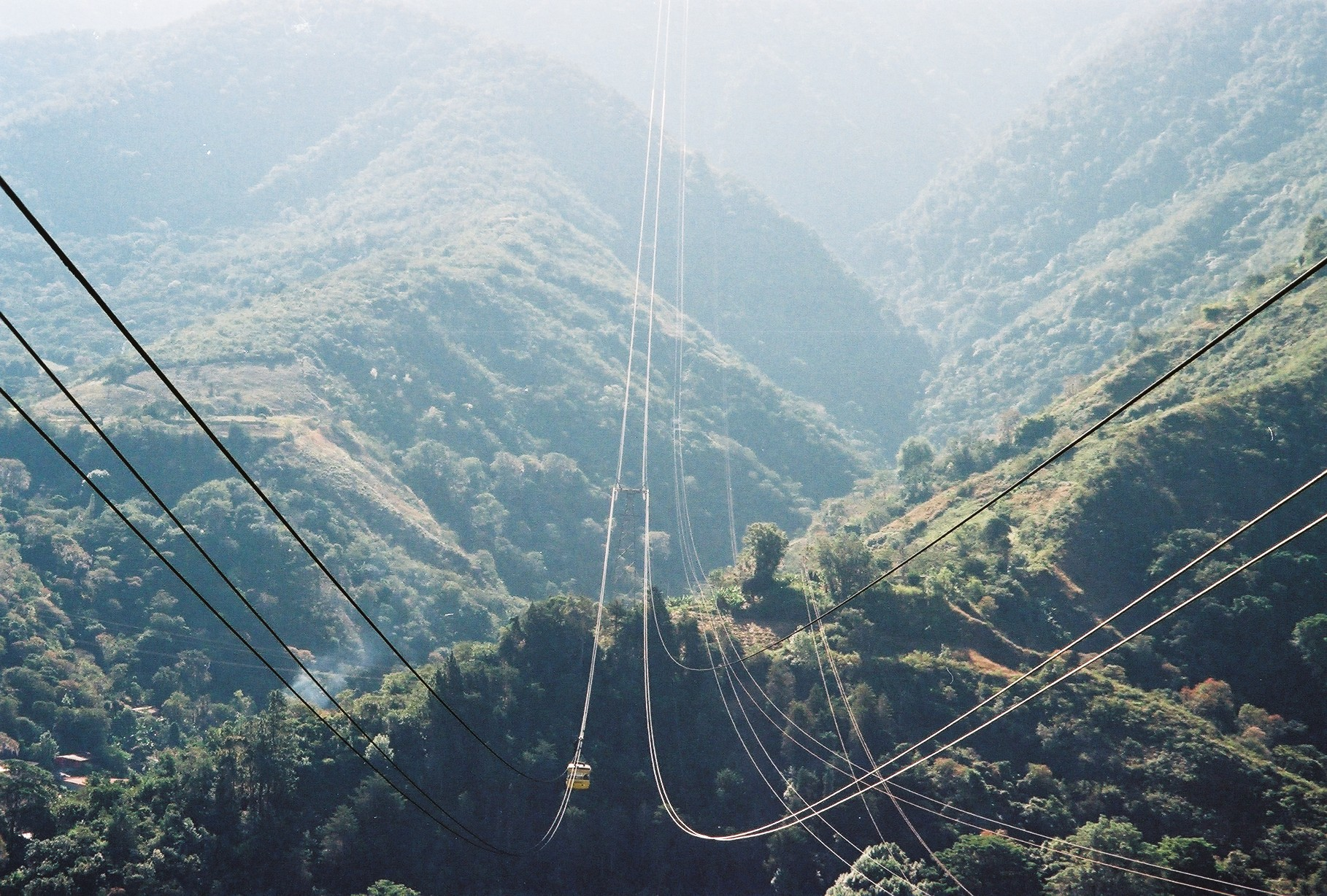 The cable-car of Mérida, Venezuela